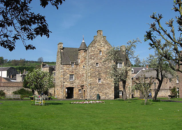 Mary Queen of Scots' House, Jedburgh This late 16th century building, now a museum, is associated with Queen Mary's temporary residence in Jedburgh in 1566.